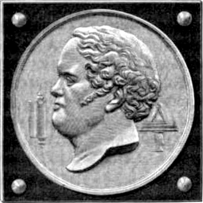 Barnabé Brisson (1777-1828), French Engineer of the Ponts-et-Chaussées.